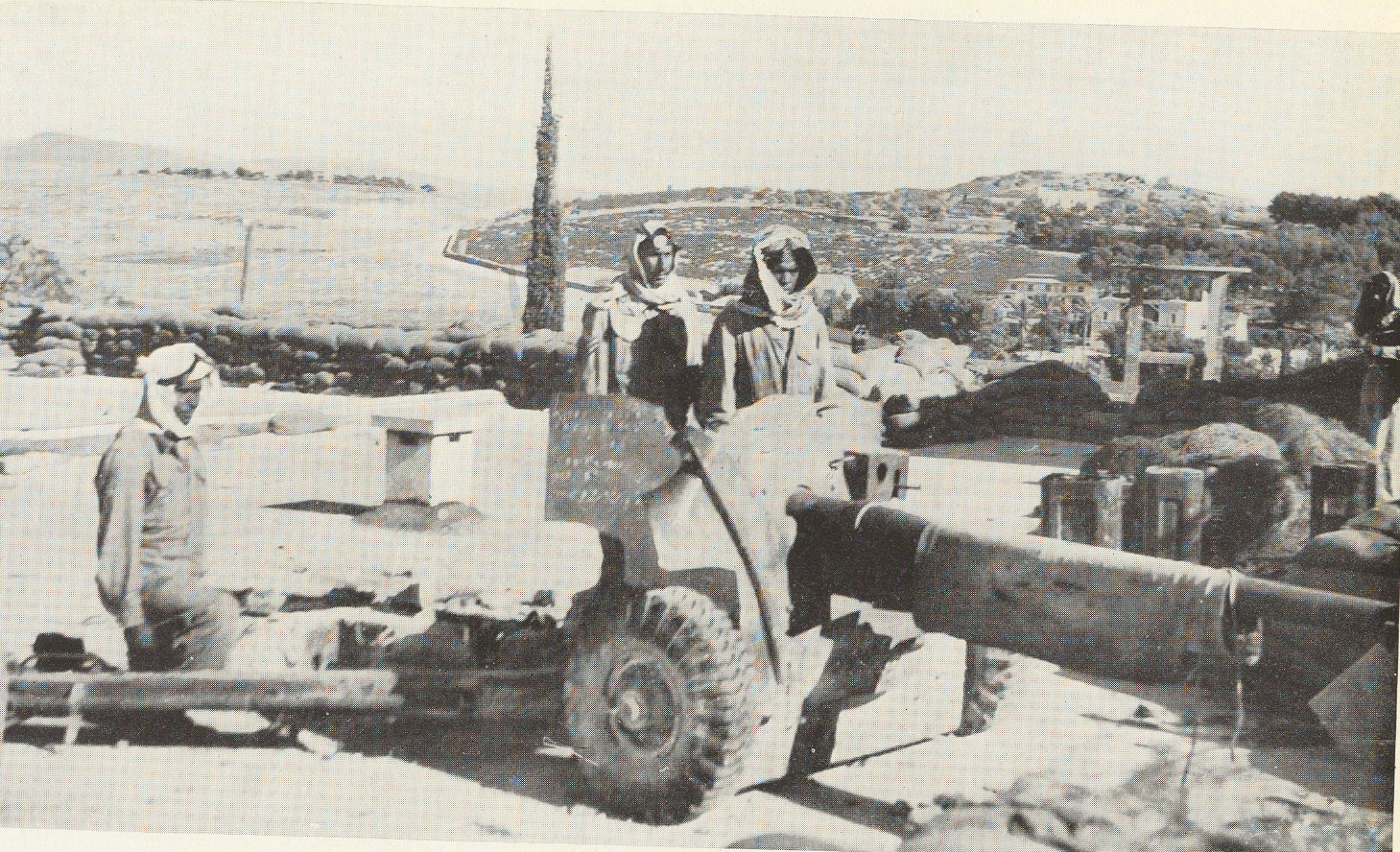 Arab Legion gunners and their gun on roof of the Latrun Tegart fort, 1948.